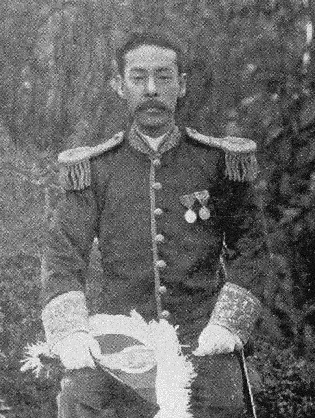 Masayasu Ikeda